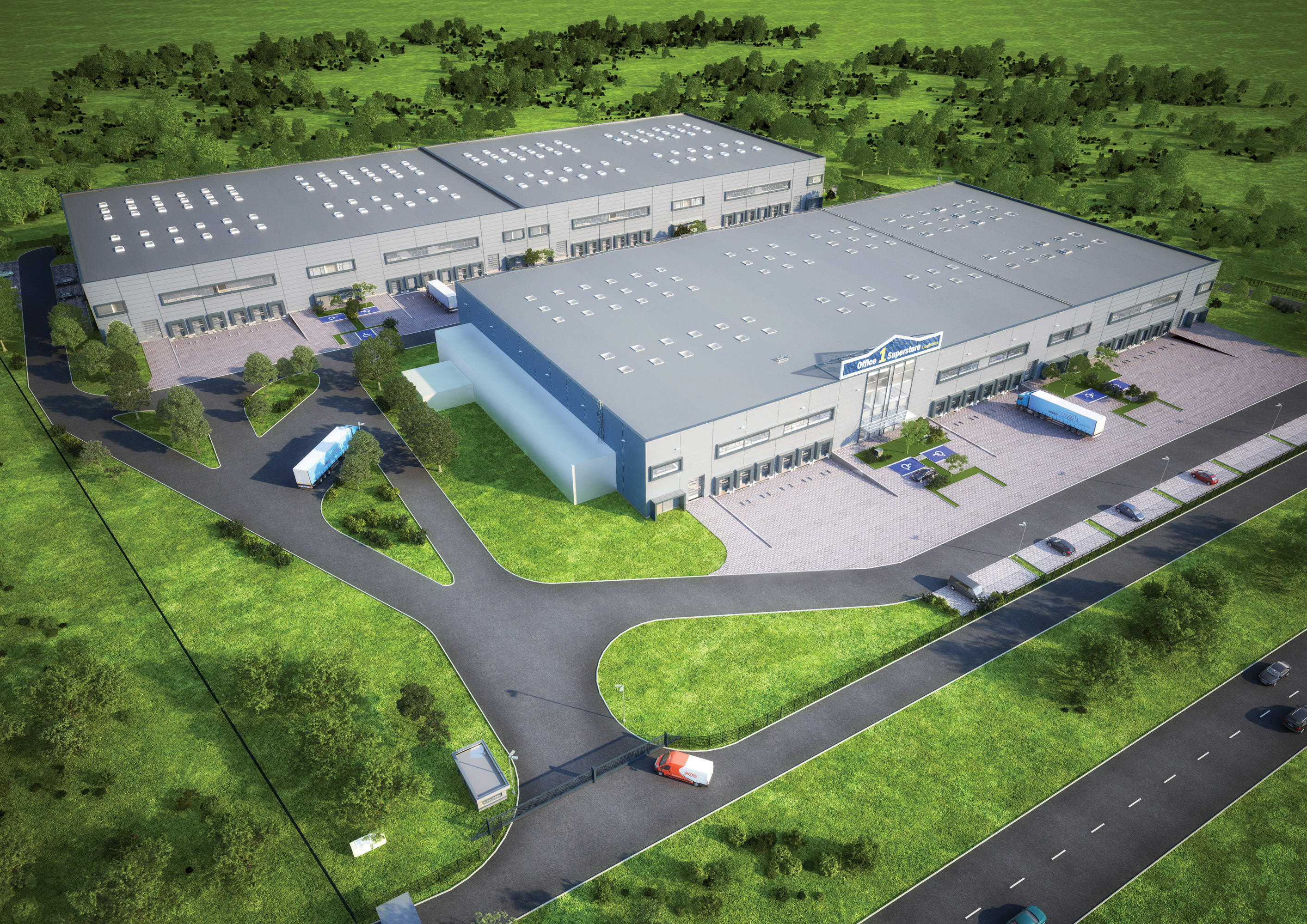 Office 1 Superstore Logistics